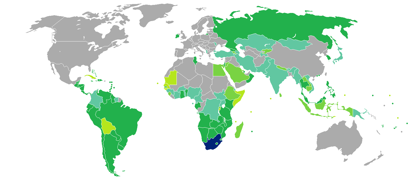 Visa requirements for South African citizens{ South Africa Visa free access Visa on arrival eVisa Visa available both on arrival or online Visa required